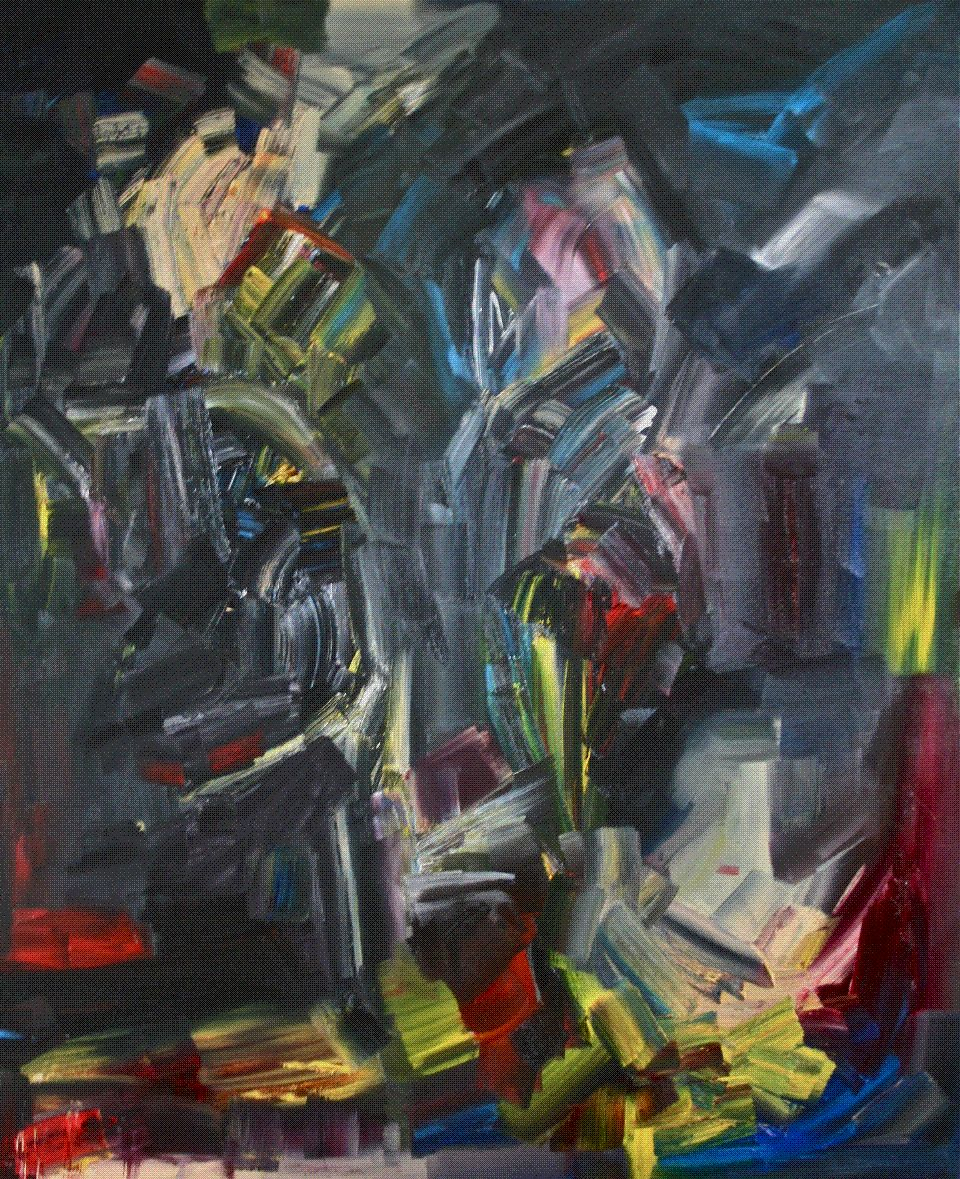 Liis Koger (1989- ). City Lights on Us. 2013. Oil on canvas